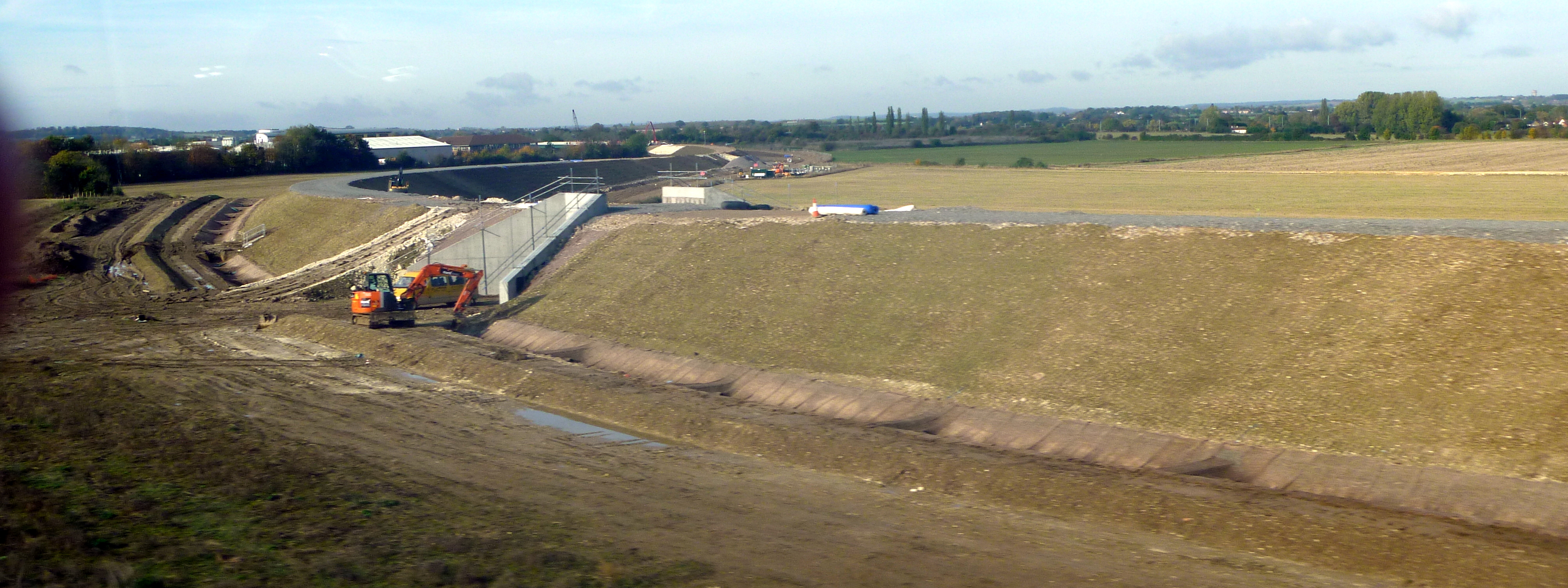 Hitchin flyover rail curve under construction.